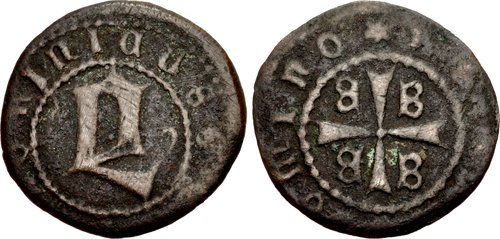 CRUSADERS, Lordship of Lesbos. Domenico Gattilusio. 1455-1458. Æ Denaro (15mm, 0.92 g, 12h). [+...] DOmInICVS [G...], large ∂ / [+ D]OmInO * [mЄTILInO], cross pattée with Bs in quarters (arms of the Paoleologi). Metcalf, Crusades –; Lunardi G15a. Good Fine, brown patina. Rare.